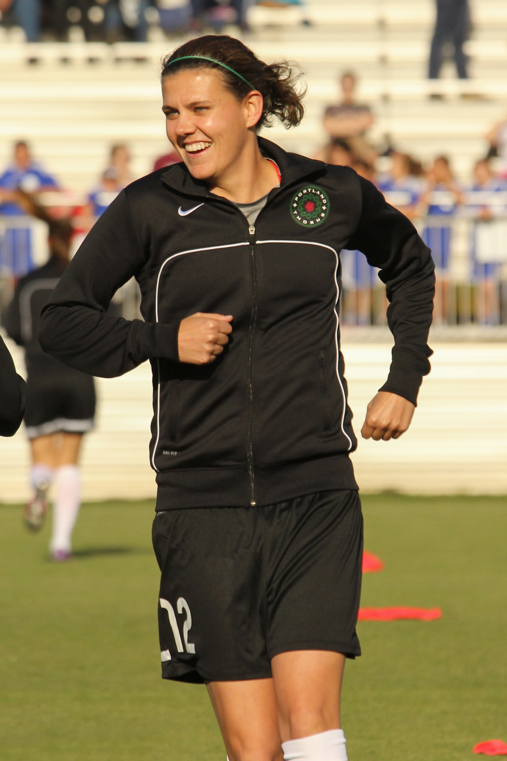 2013-05-04 Spirit - Thorns-2